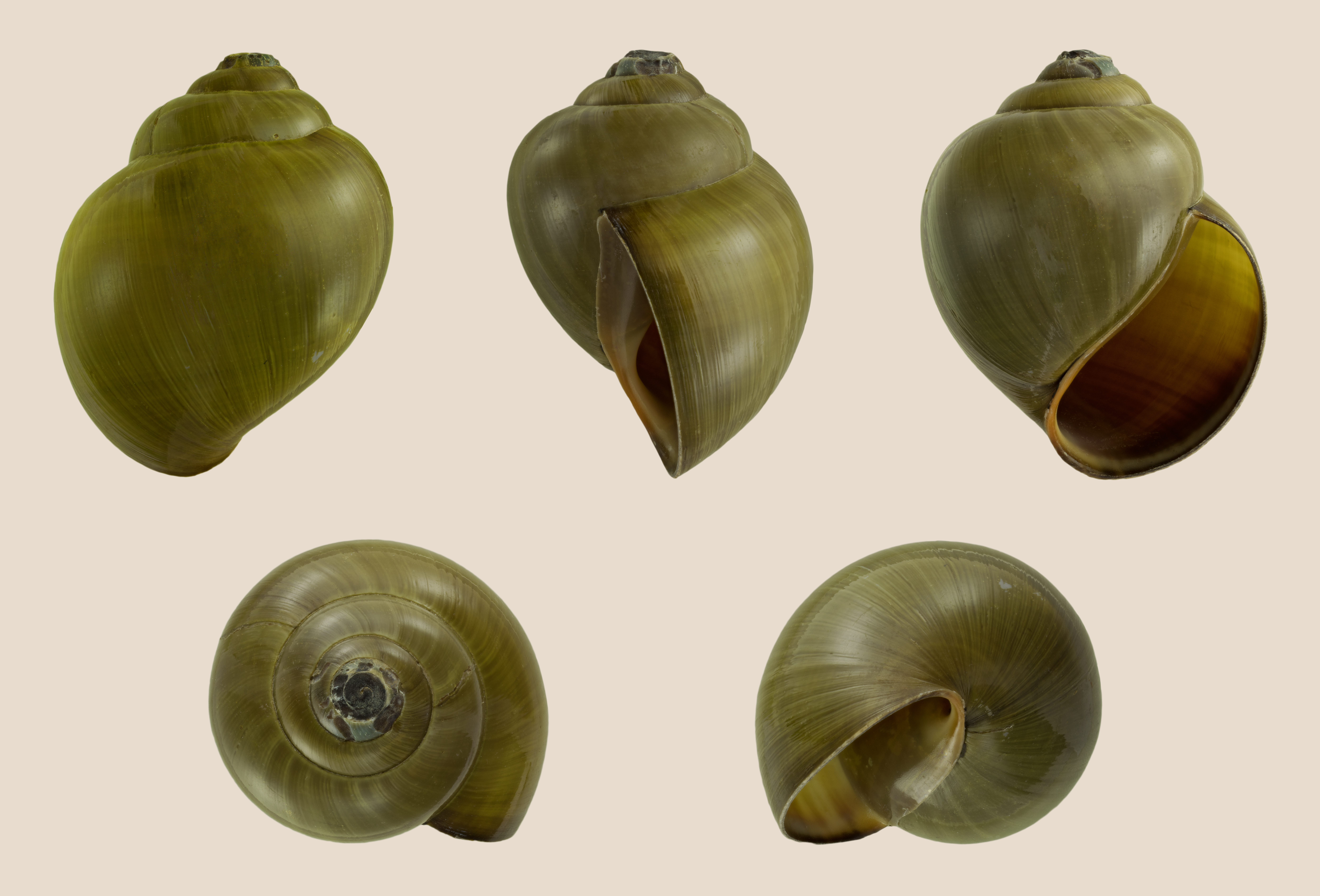 Pila polita (Deshayes, 1830); Height 6,6 cm; Originating from Vietnam. Shell of own collection, therefore not geocoded.